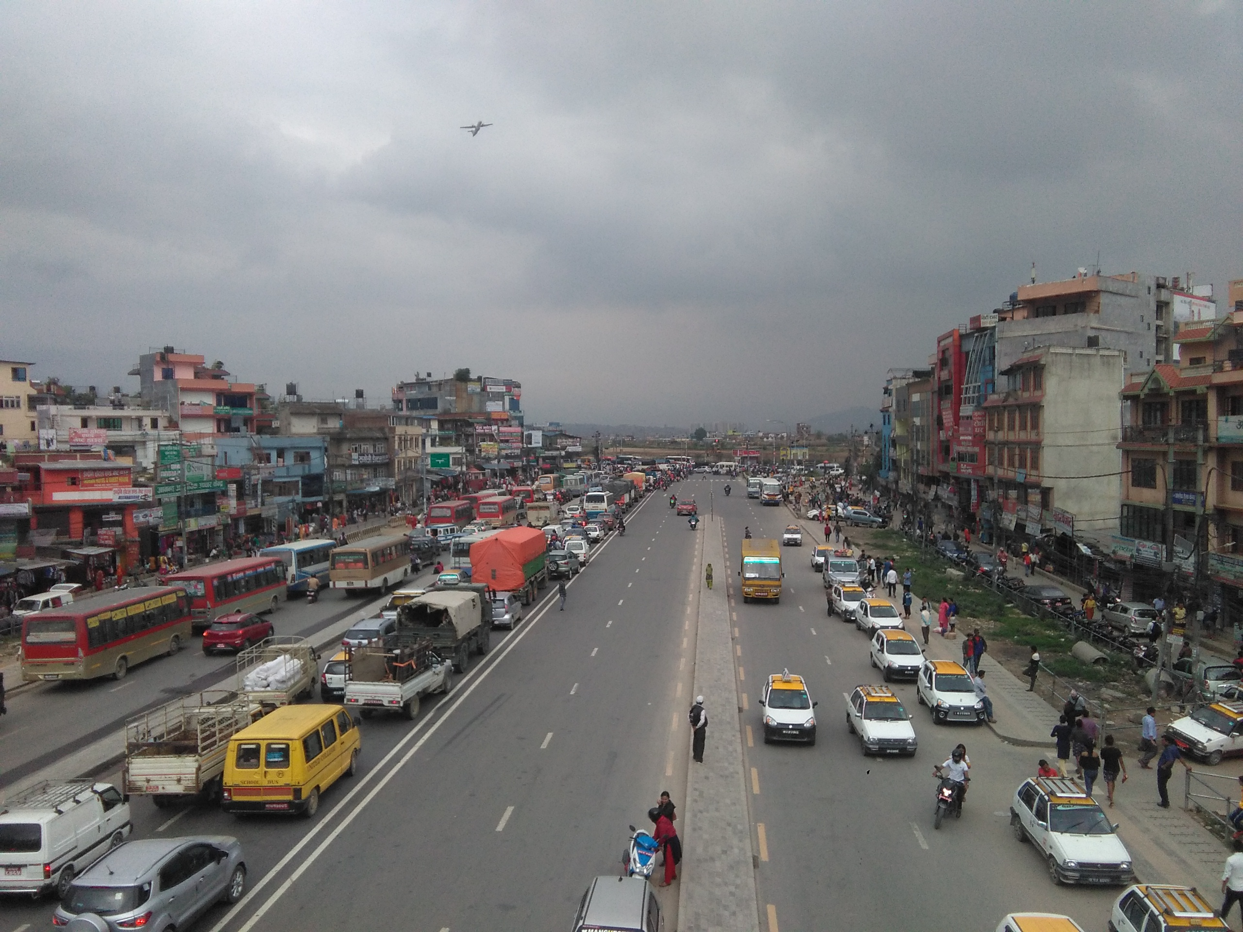 A scene of Koteshwar towards airport from pedestrian overbridge